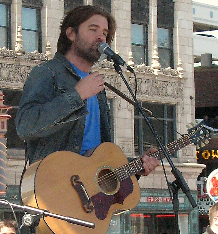 Brian Vander Ark, American singer-songwriter